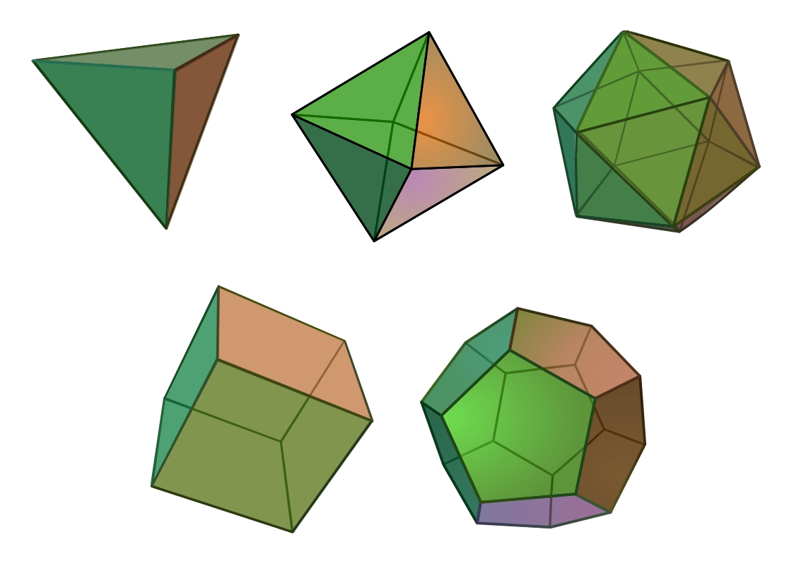 Platonic solids